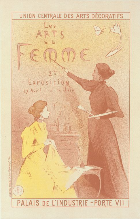 Affiche pour la deuxième Exposition des "Arts de la Femme" [organisée par l'Union centrale des arts décoratifs (UCAD) à Paris, du 27 avril au 10 juin 1895].